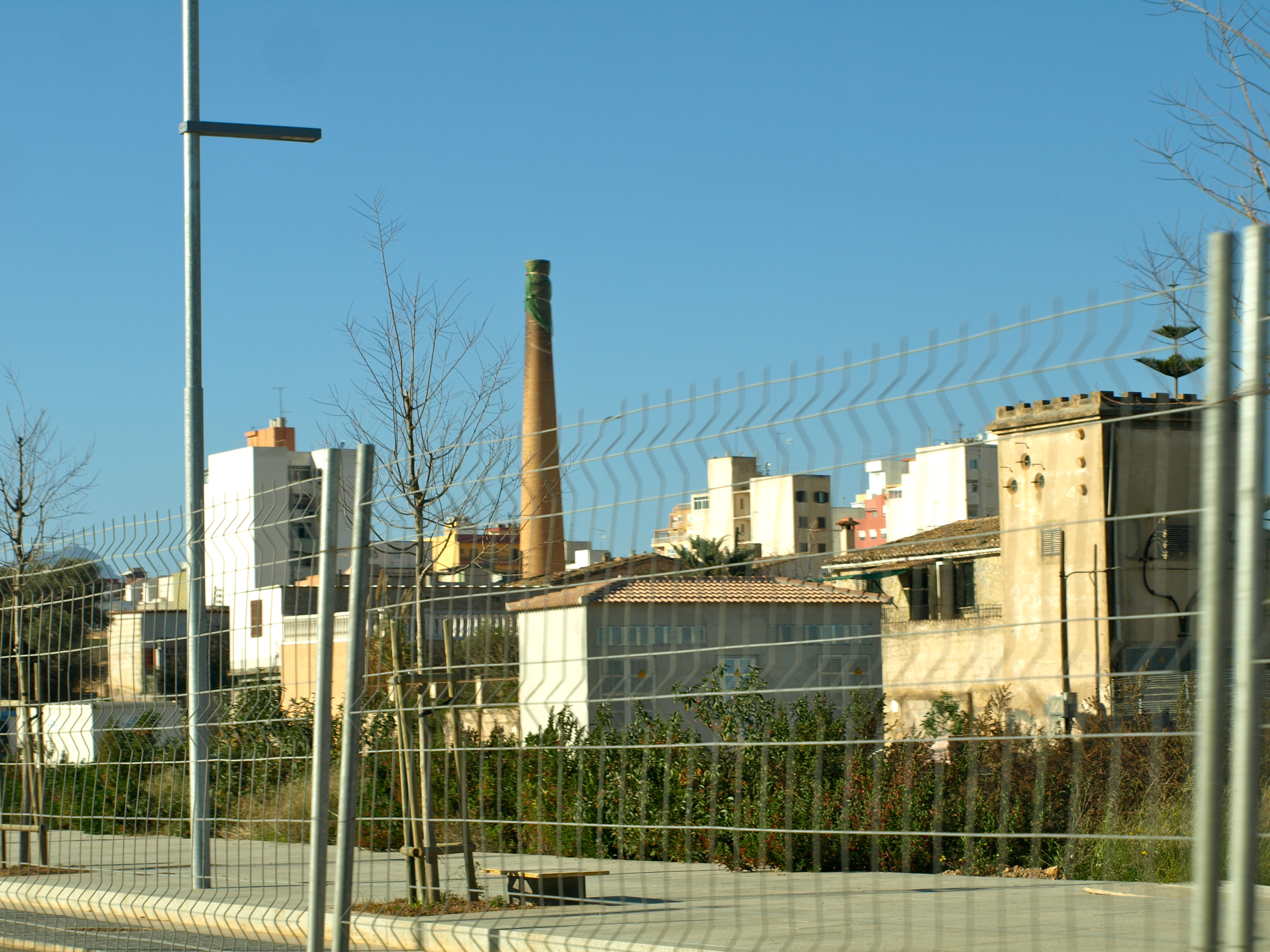 Can Ribes xemeney Place Lloc/Place: La Soletat, Palma